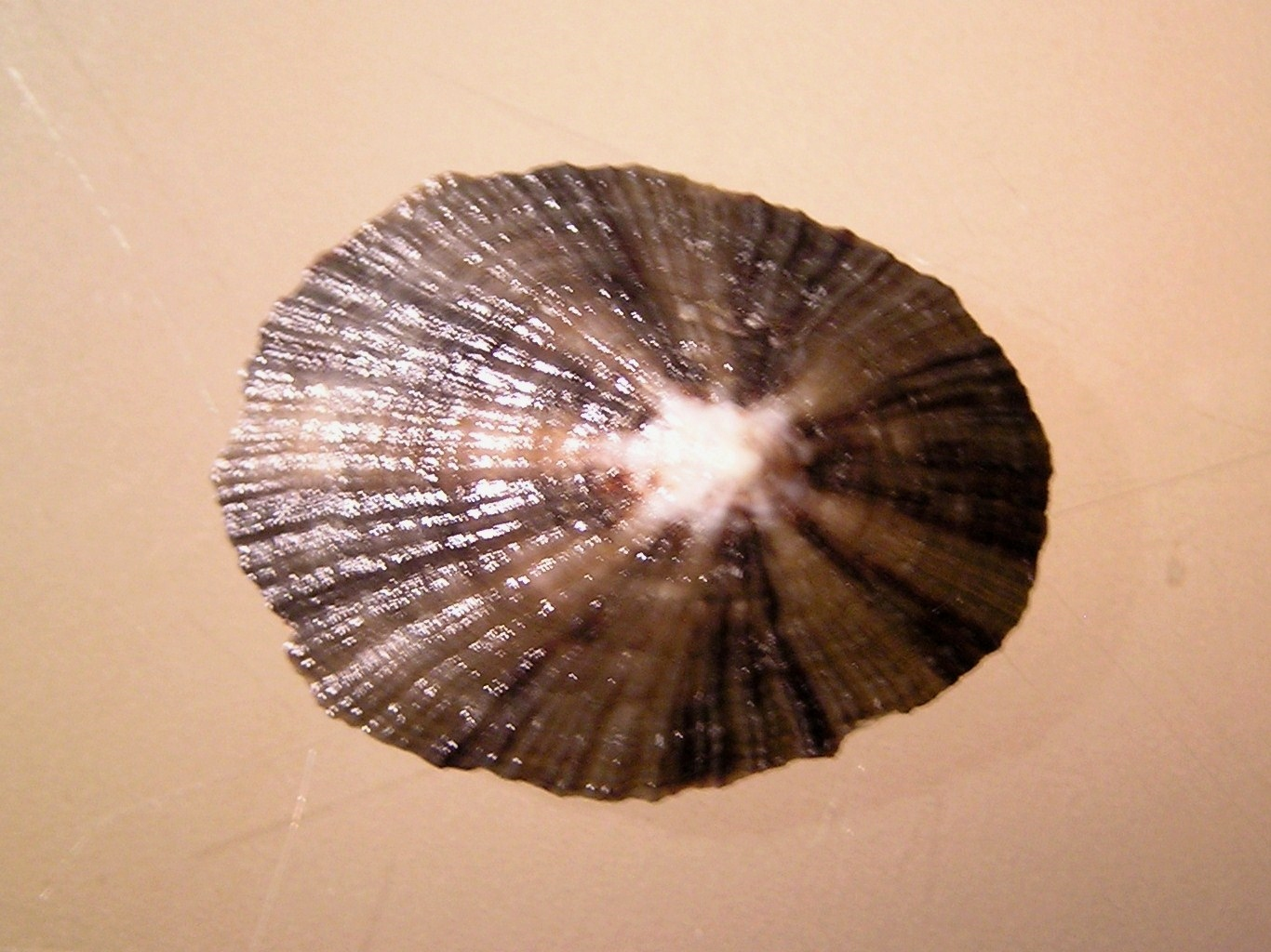 Cellana livescens (Reeve, 1855) (synonym: Hemitoma livescens (Reeve, 1855)), family Nacellidae; Mauritius